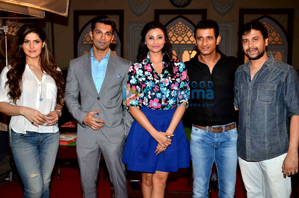 Hate Story 3 Cast Karan Singh Grover Sharman Joshi